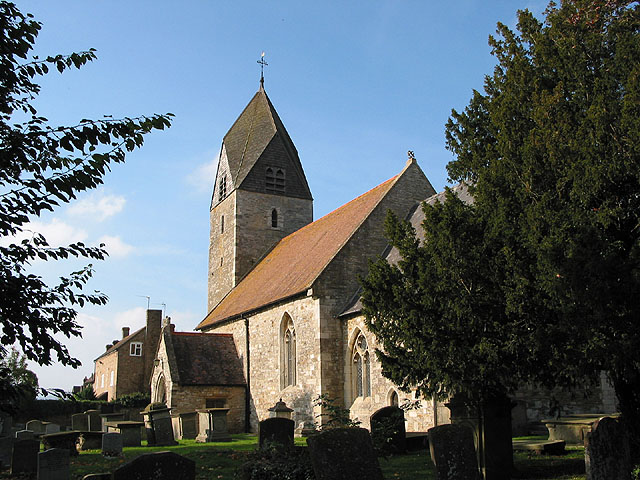 St. Andrew's Church, Churcham